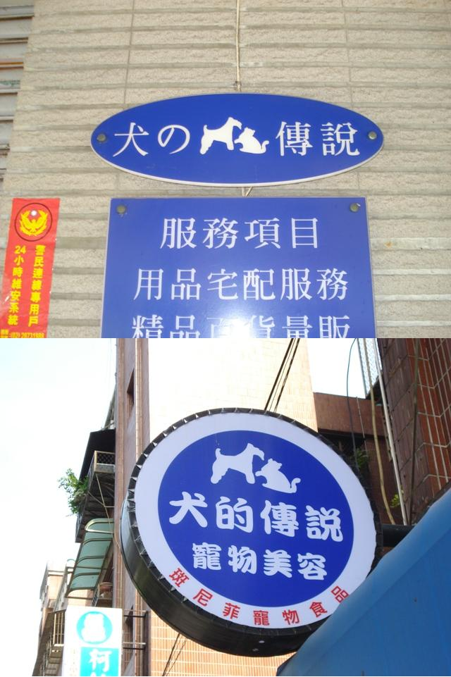 A photo comparing "的" and "の" in the same context in Taiwan.中文（台灣）: 臺北市士林區的寵物美容店「犬的傳說」（Legend of Dogs）招牌，攝影者以此舉例介紹「的」與「の」在臺灣的用法。